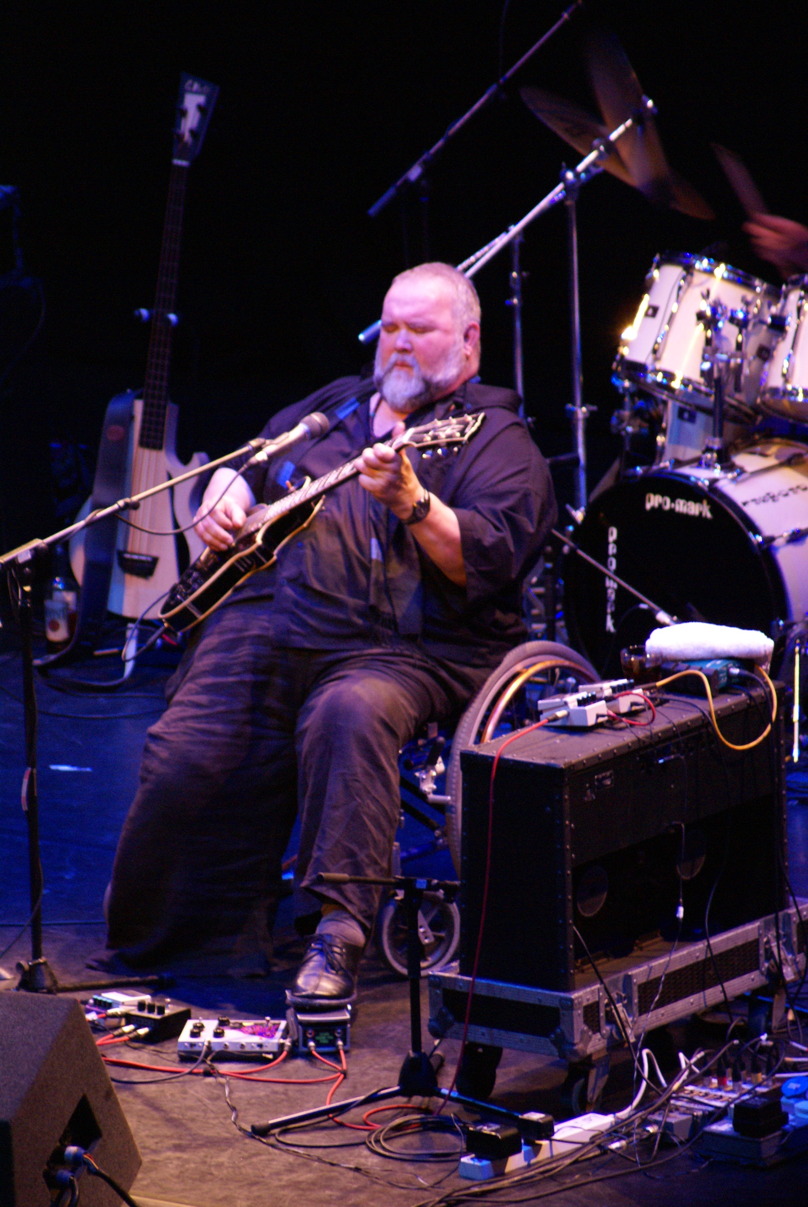 John Martyn performs at the Barbican Centre, London, 2008.